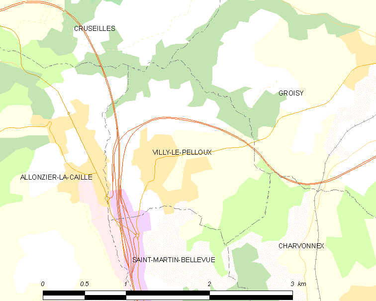 Map of French municipality Villy-le-Pelloux